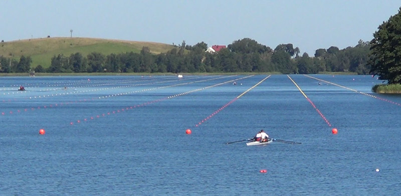 Rowing track in Galvė lake, Trakai, Lithuania.